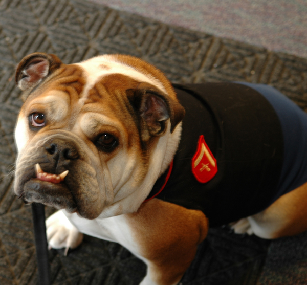 Photograph of Lance Corporal Molly, the English Bulldog mascot of the Marine Corps Recruit Depot San Diego.